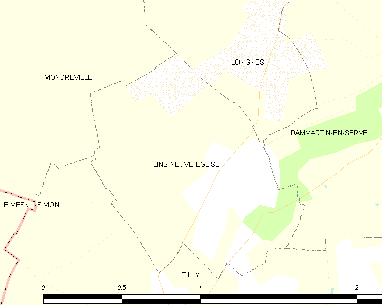 Map of French municipality Flins-Neuve-Église